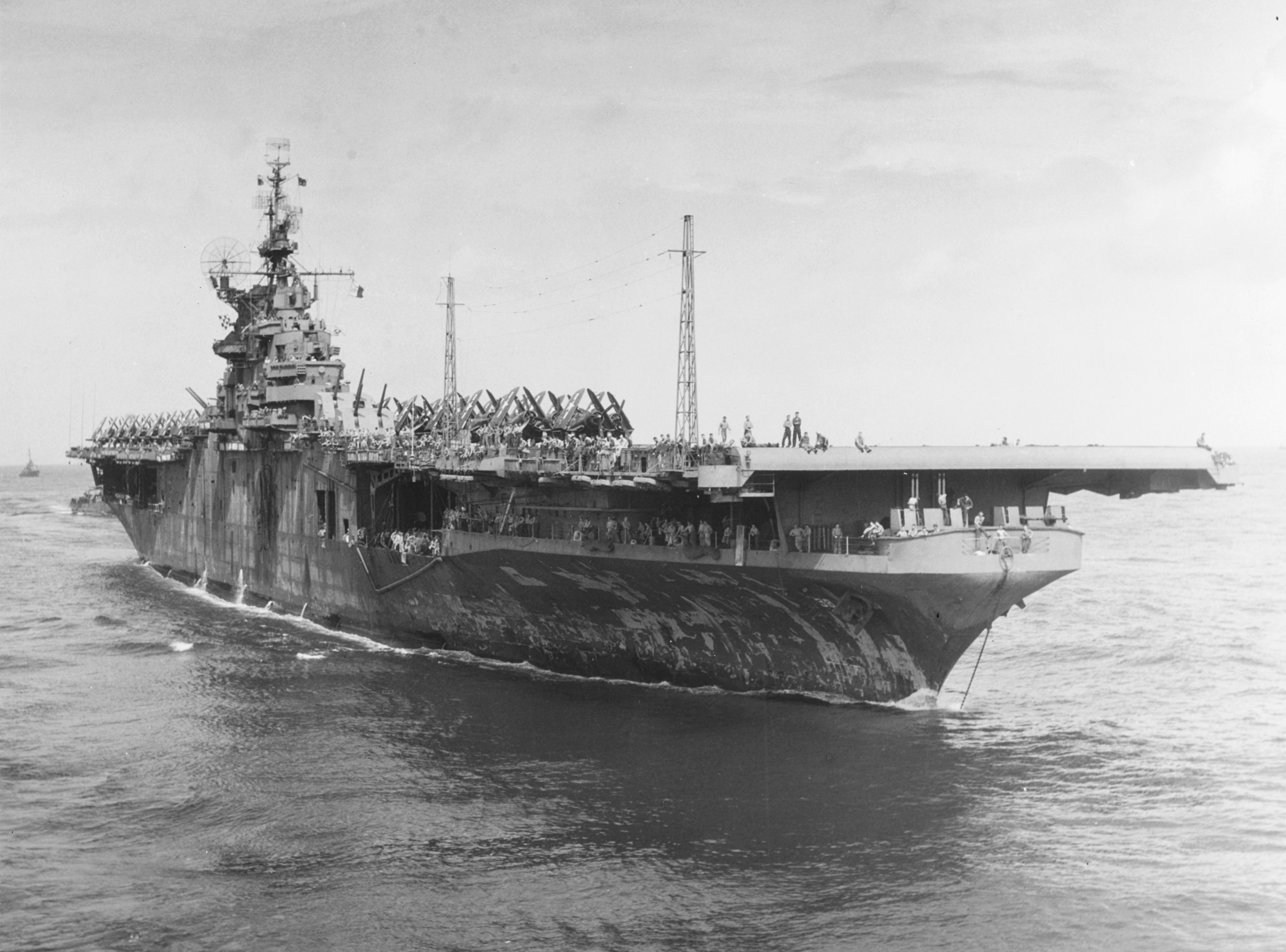 The U.S. Navy aircraft carrier USS Shangri-La (CV-38) comes alongside the escort carrier USS Attu (CVE-102), not visible, to transfer personnel and supplies, 3 September 1945. Note: Attu's cruise book claims that this was the first side-by-side underway replenishment by two aircraft carriers.